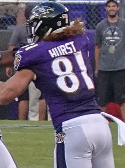 Joe Flacco 2018 Los Angeles Rams season